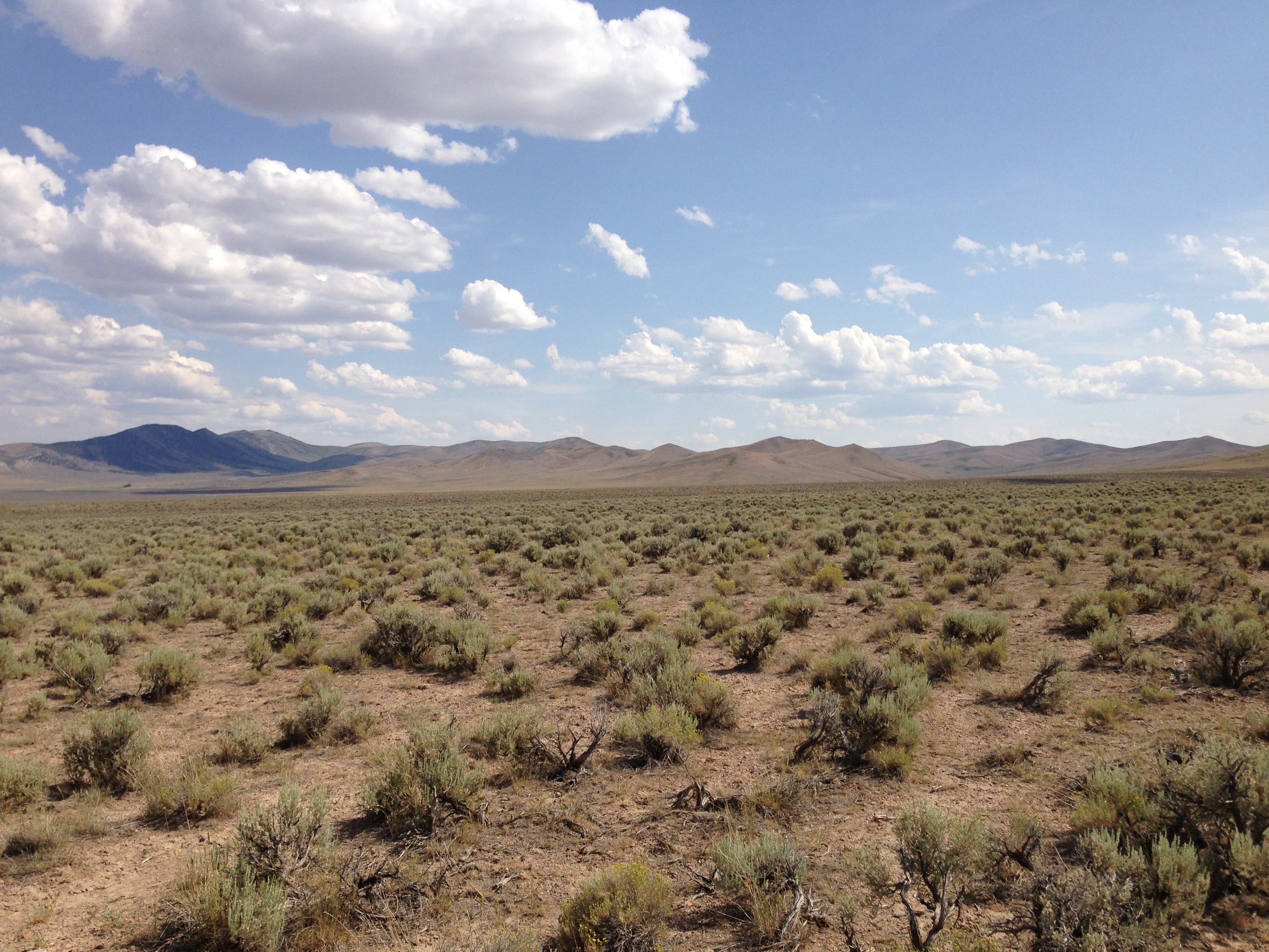 Sagebrush-steppe along U.S. Route 93 in central Elko County, Nevada